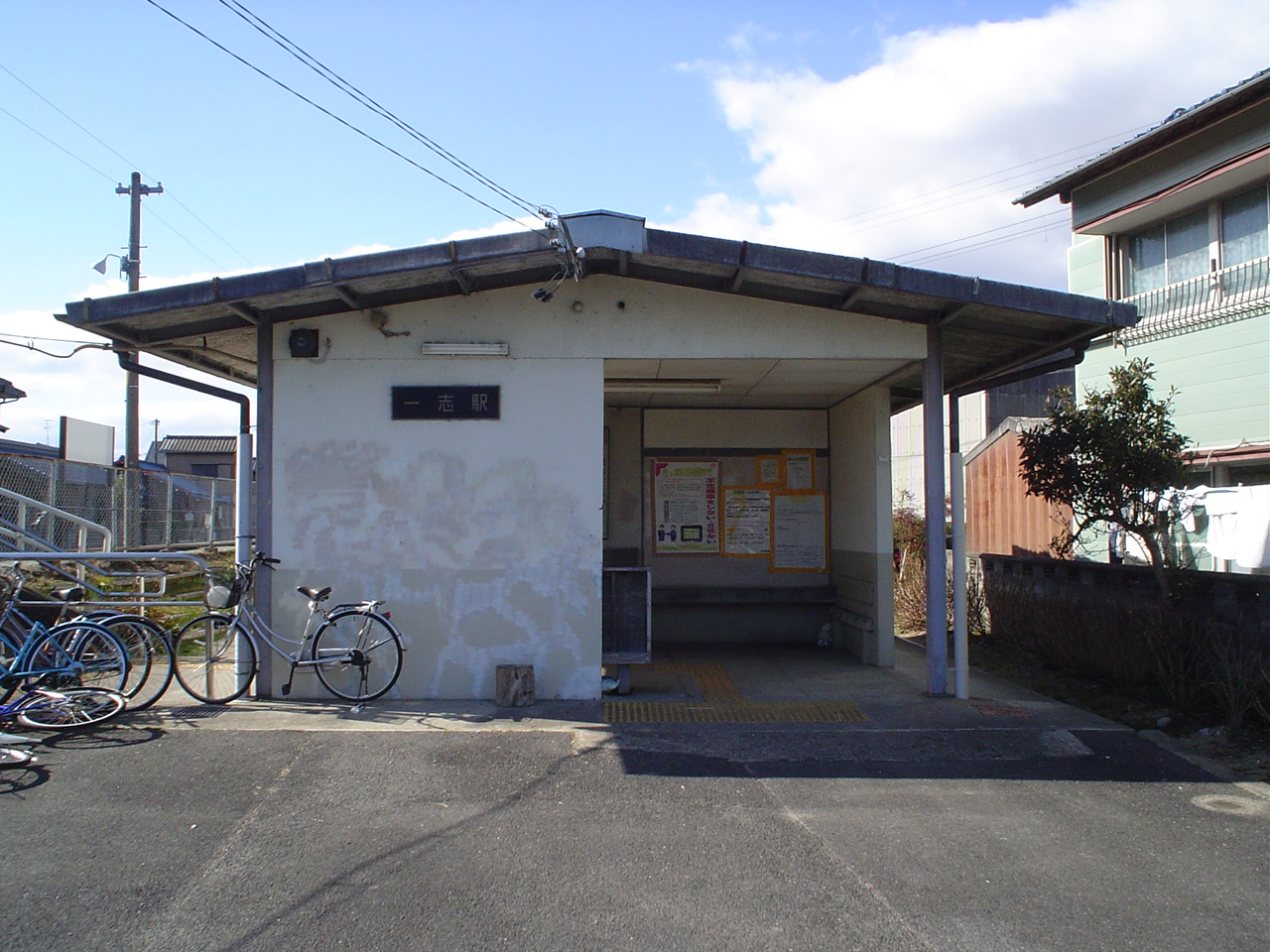 Ichishi Station in Mie pref, japan